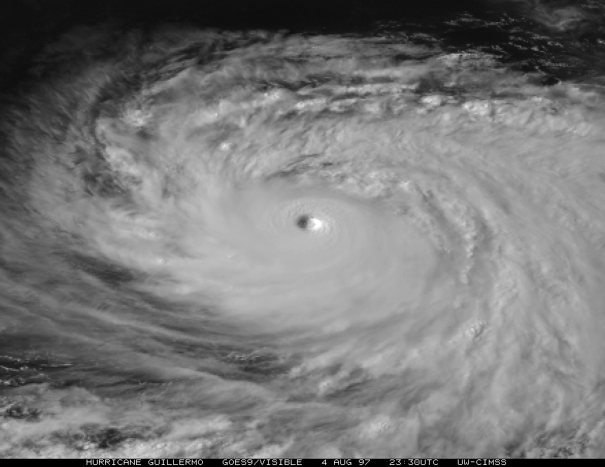 CIMSS photo of Hurricane Guillermo of 1997 at or near peak intensity. URL:[1] Uploader:Mitchazenia